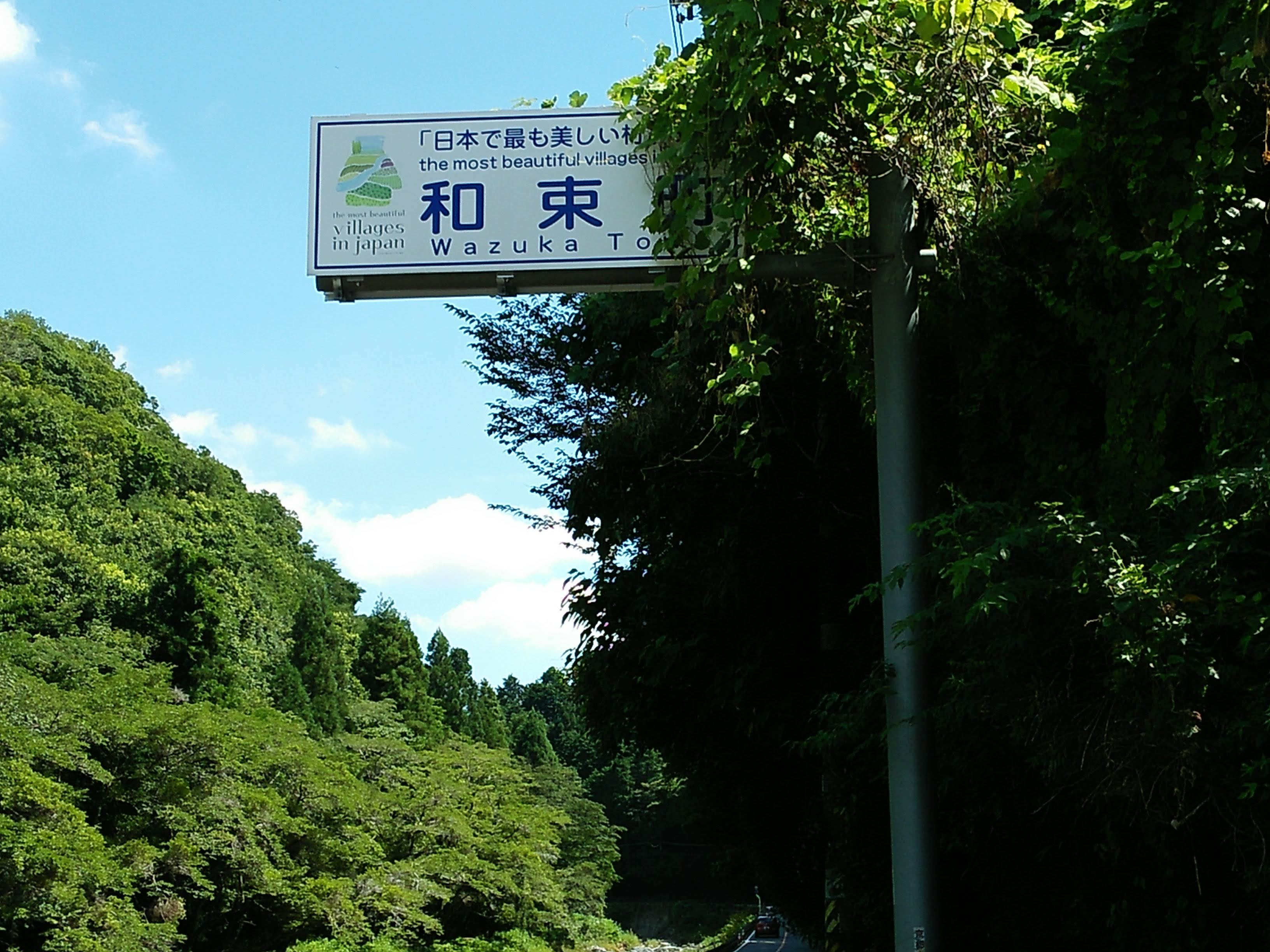 Tea garden Wazuka Town Kyoto